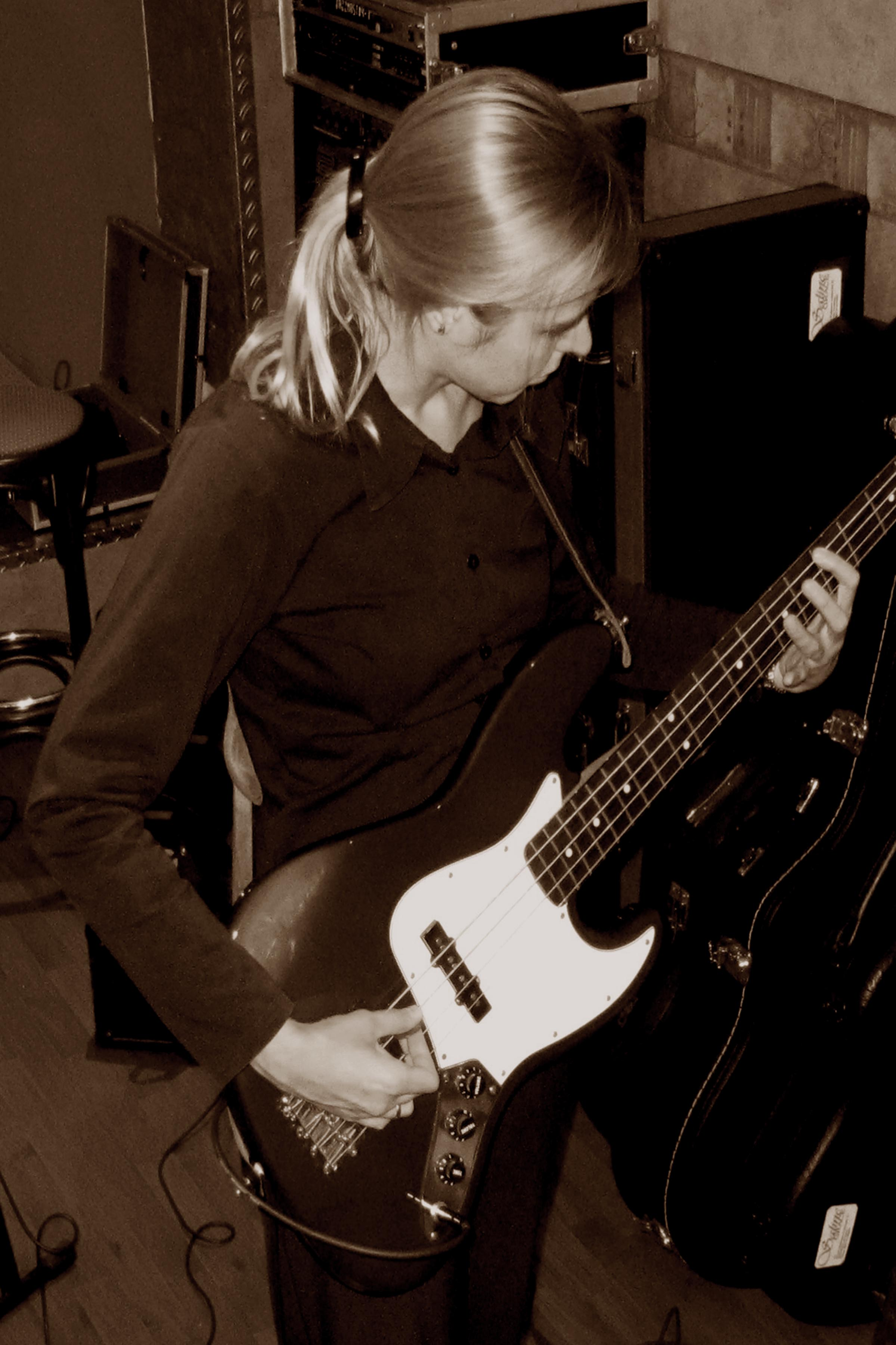 Saline Grace at Raum1 recording their album 'Fog Mountain' in 2009